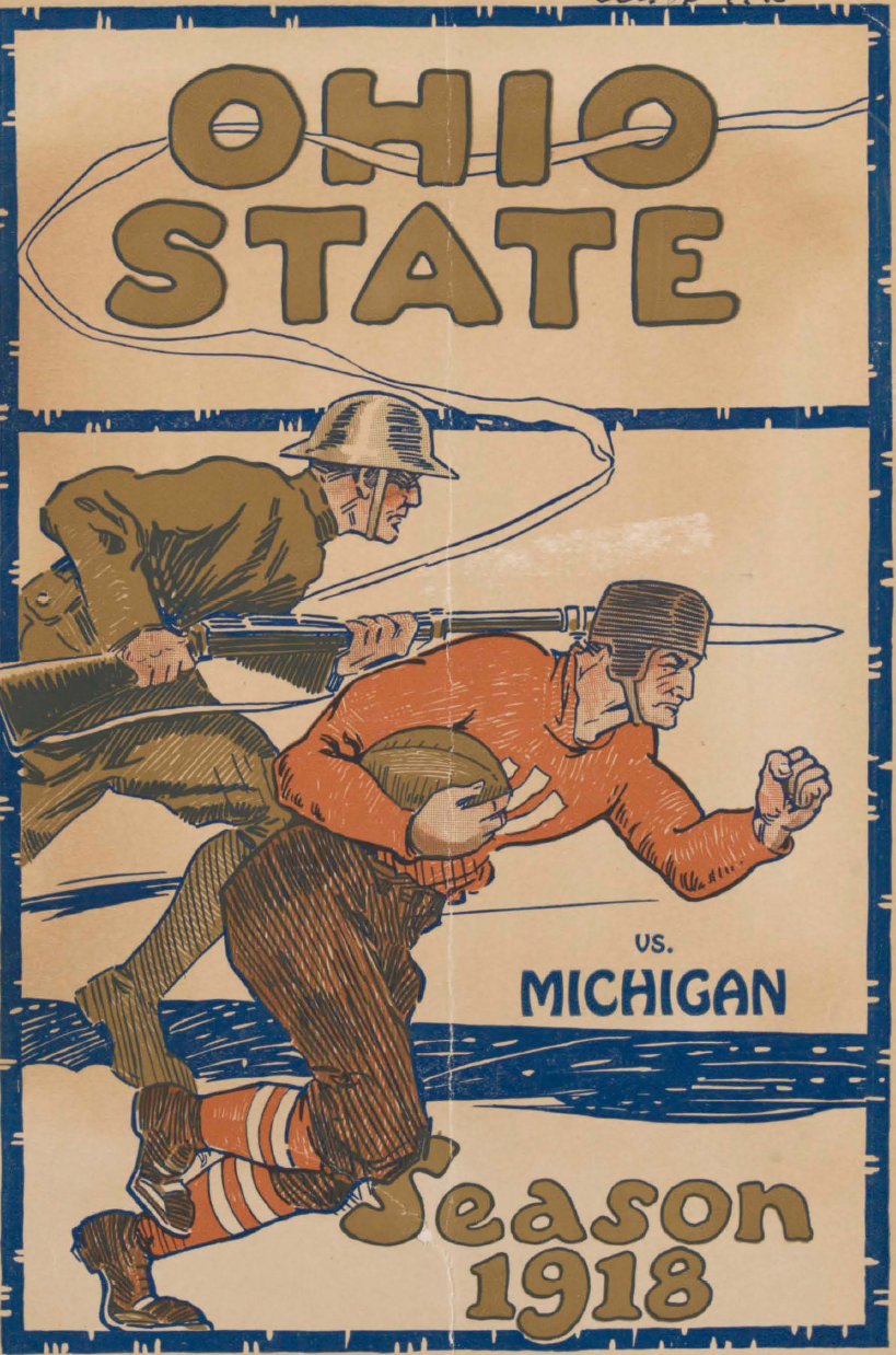 Cover art from program for the November 1918 football game between the University of Michigan and Ohio State University